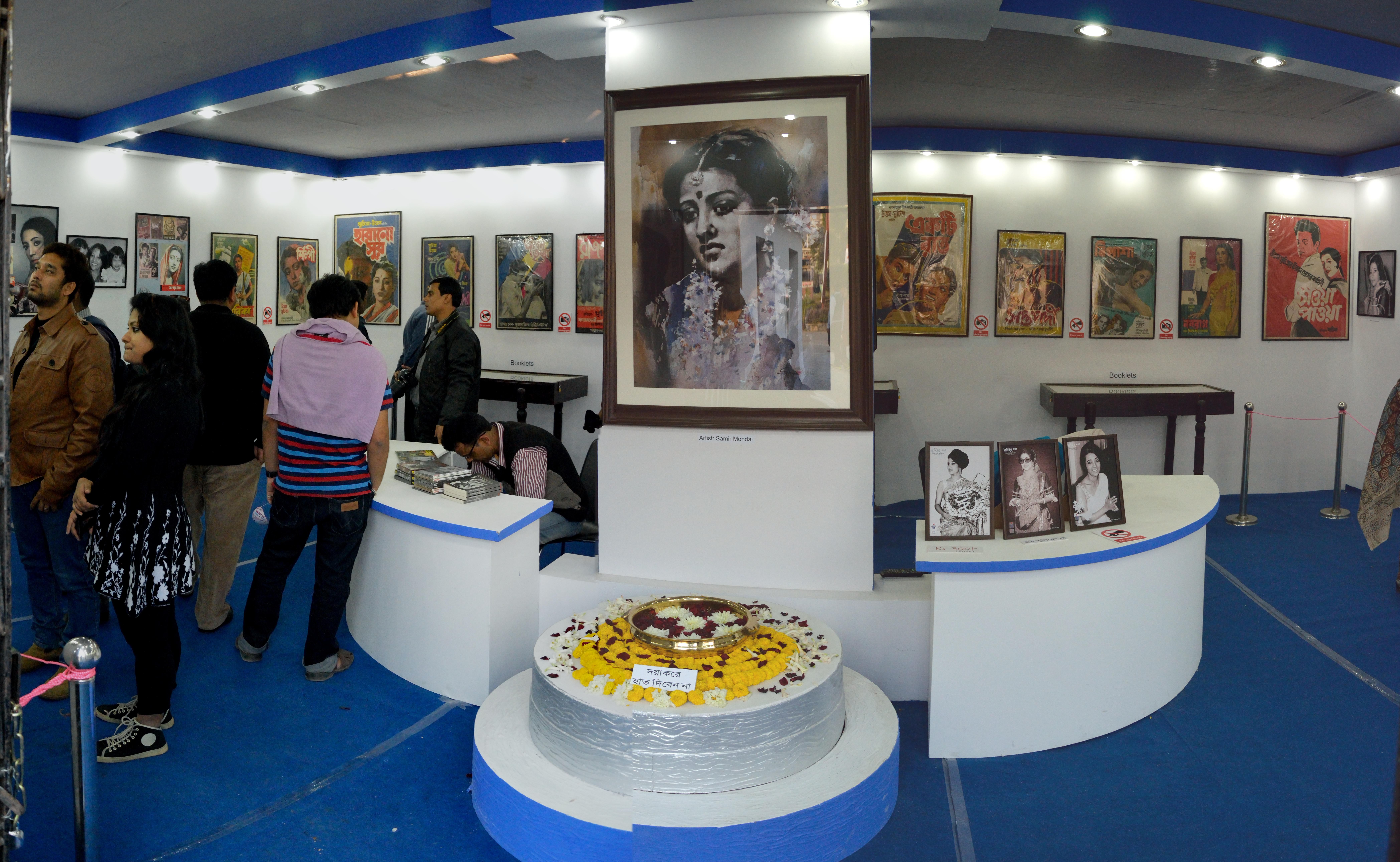 Photographed durintg the 38th International Kolkata Book Fair at Milan Mela Complex , Kolkata.